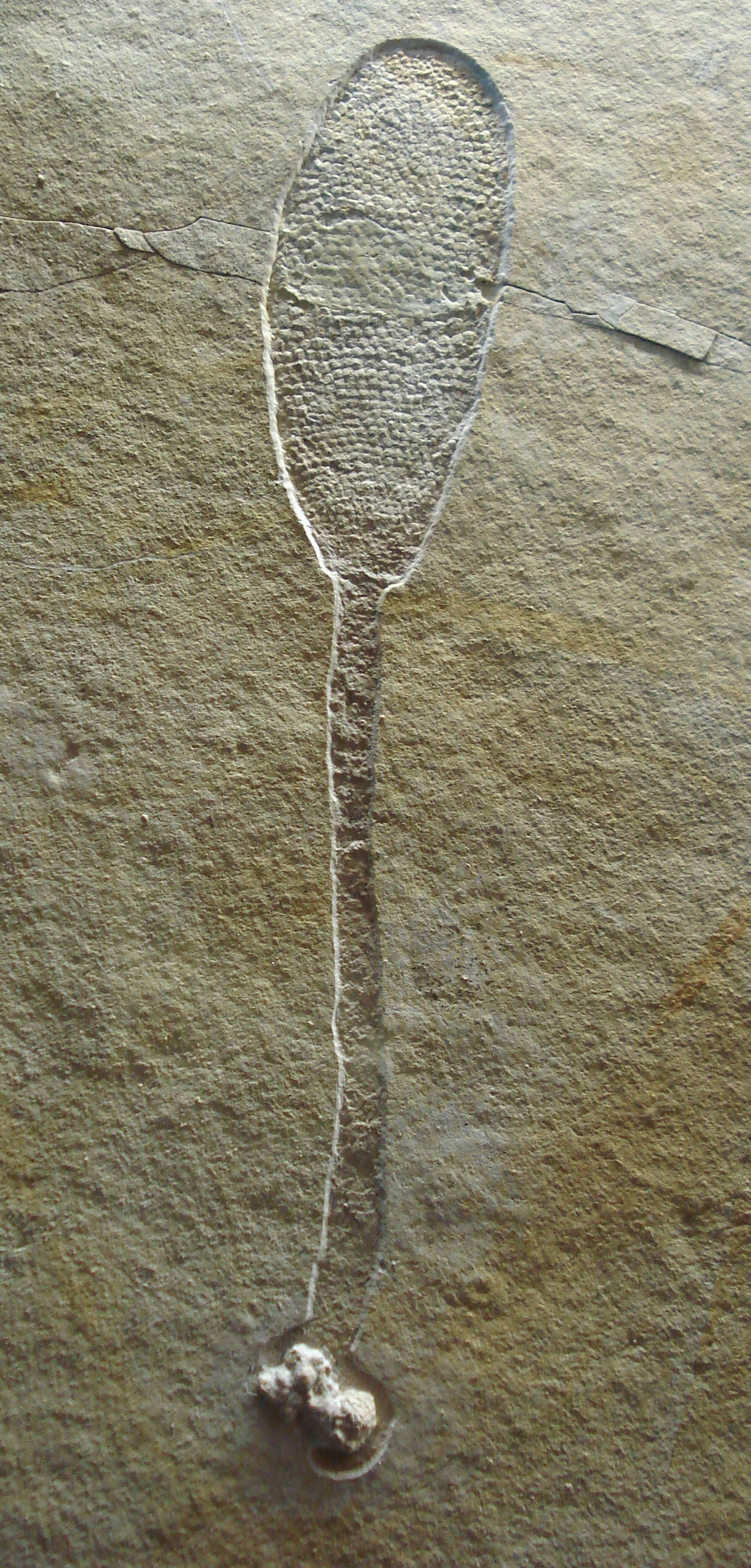 fossil of goniolina